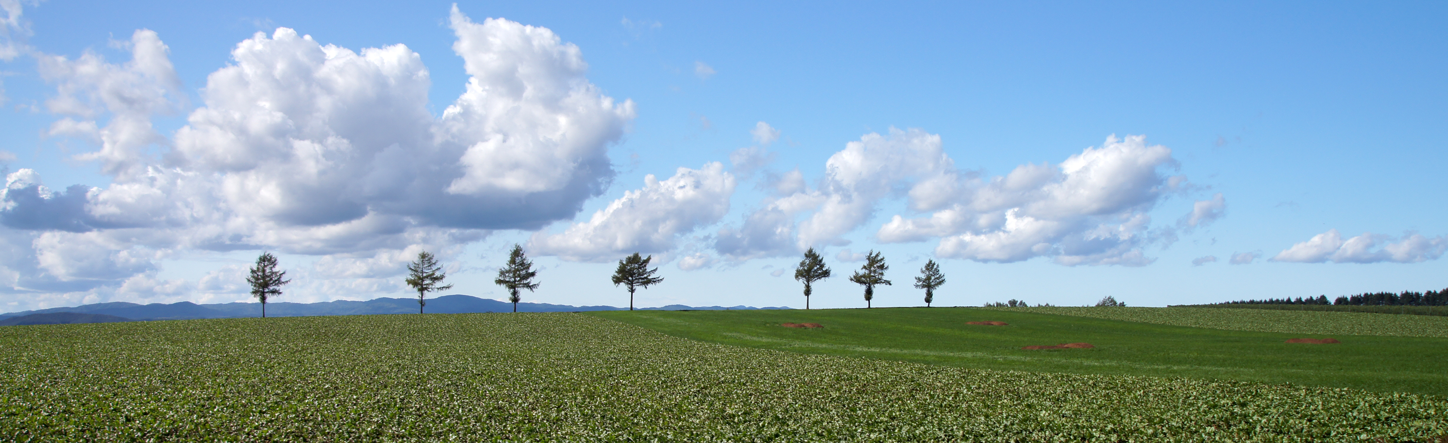 Märchen-no-oka ("Marchen Hill") in Ozora Town, Hokkaido, Japan